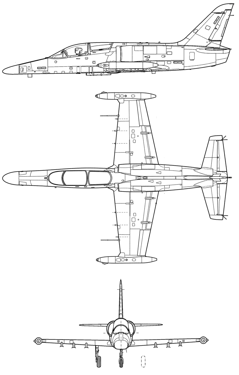 Aero L-159 Alca orthographic projection